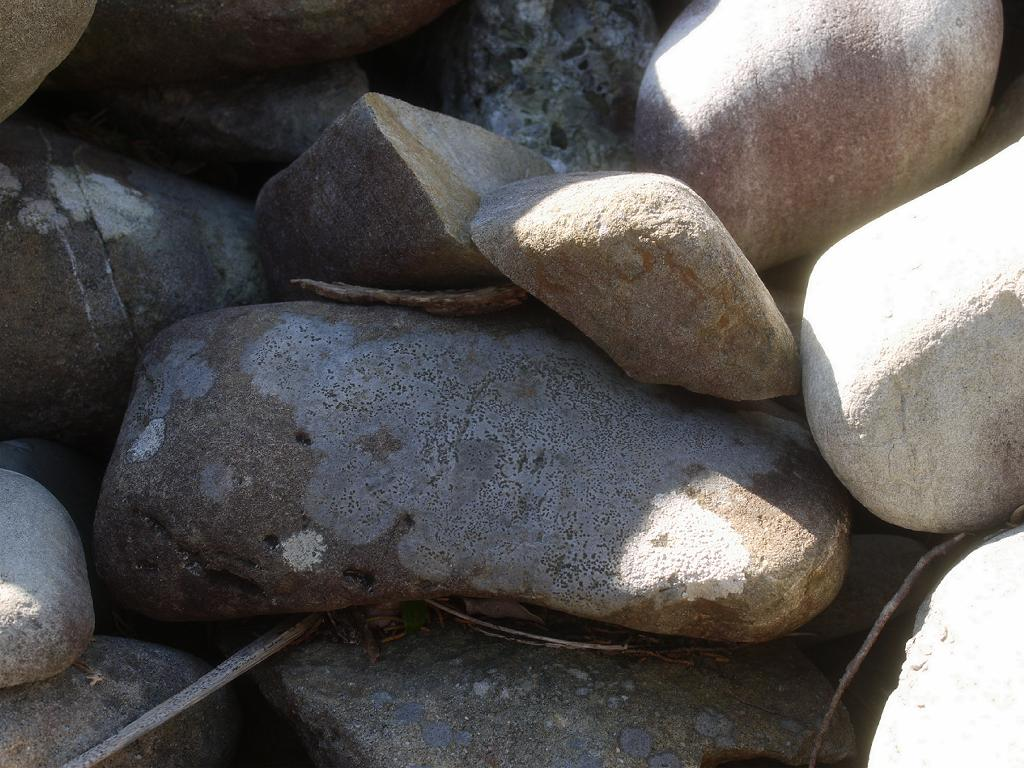 Porpidia albocaerulescens(Lecideaaceae)